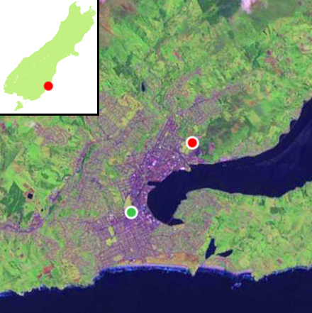 Map showing current (red) and former (green) locations of the Caledonian Ground, Dunedin, New Zealand. Based on NASA satellite map